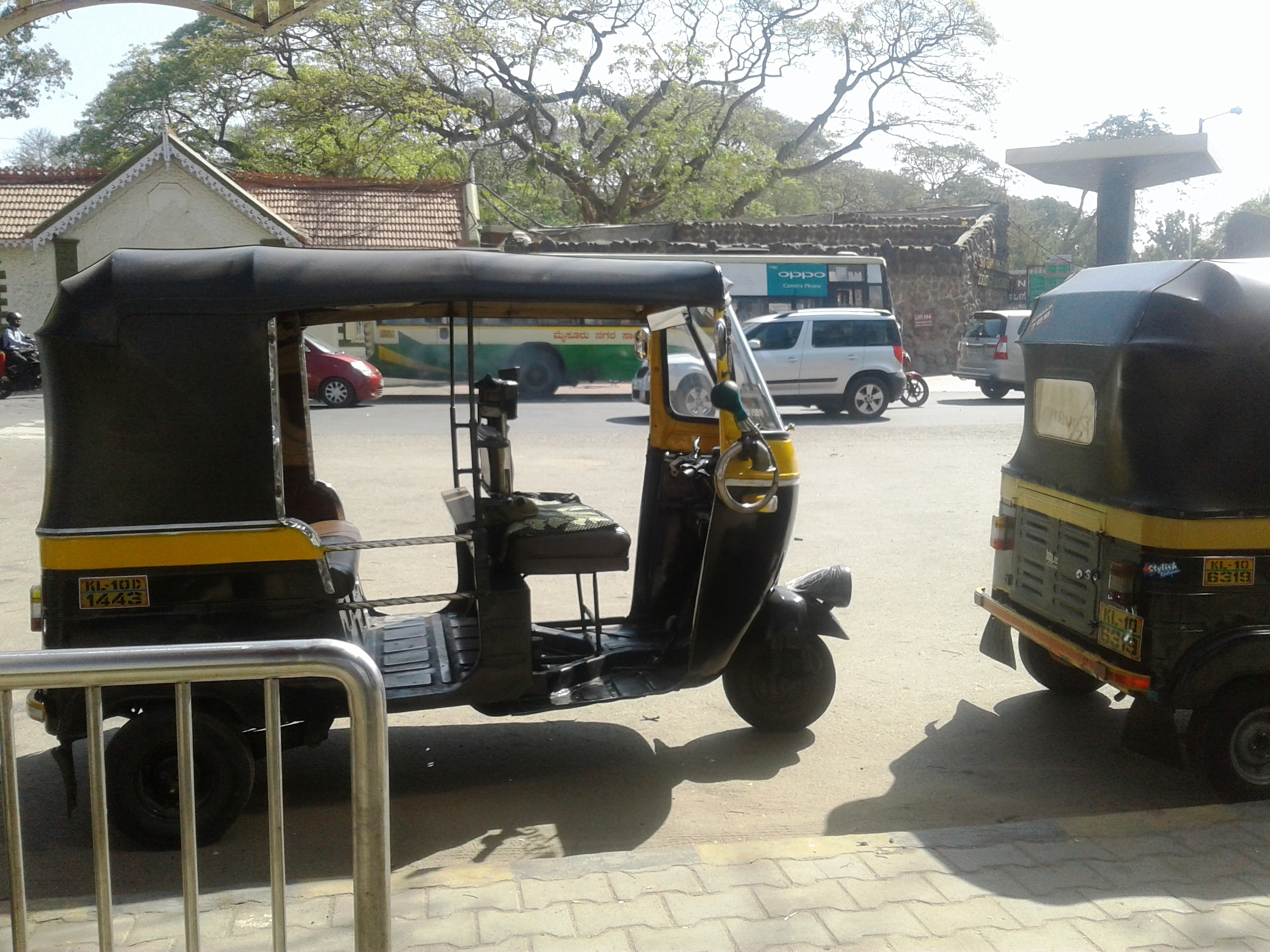 Mysore Zoo Entrance, Karnataka India.